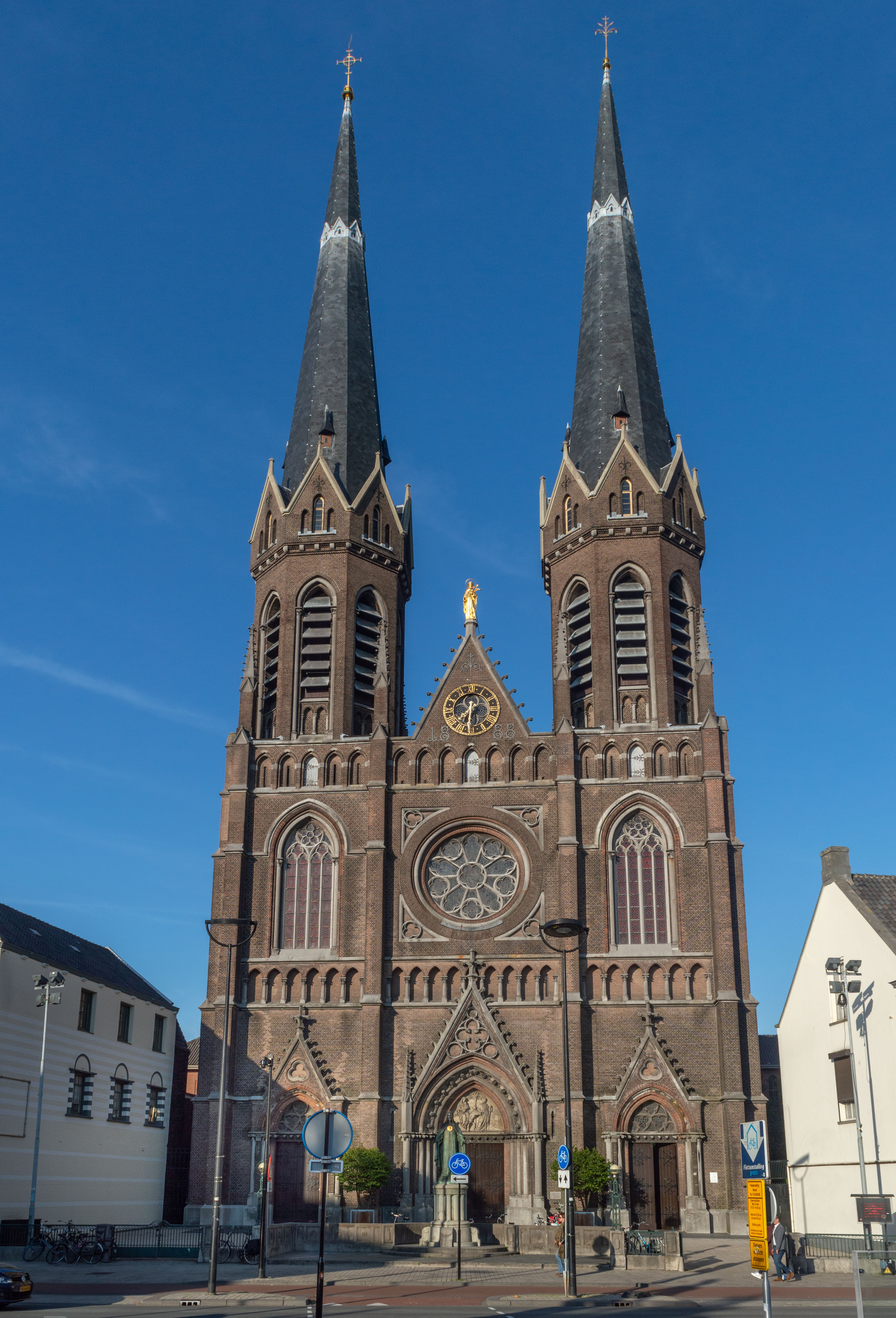 The front facade of the Heuvelse kerk (Tilburg) with its two towers, seen from the Heuvel.